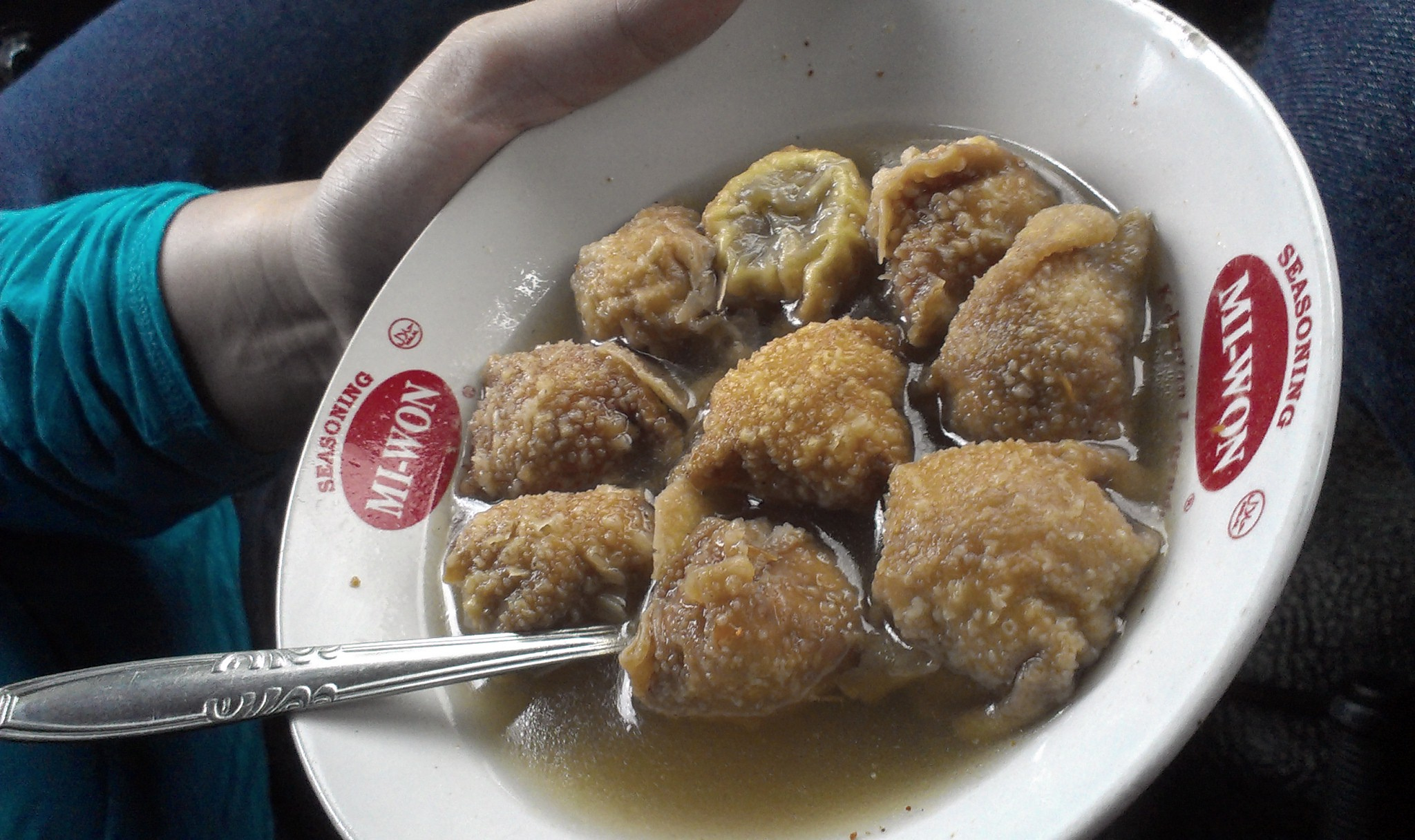 Cuanki, Bandung fried siomay with MSG and chili powder